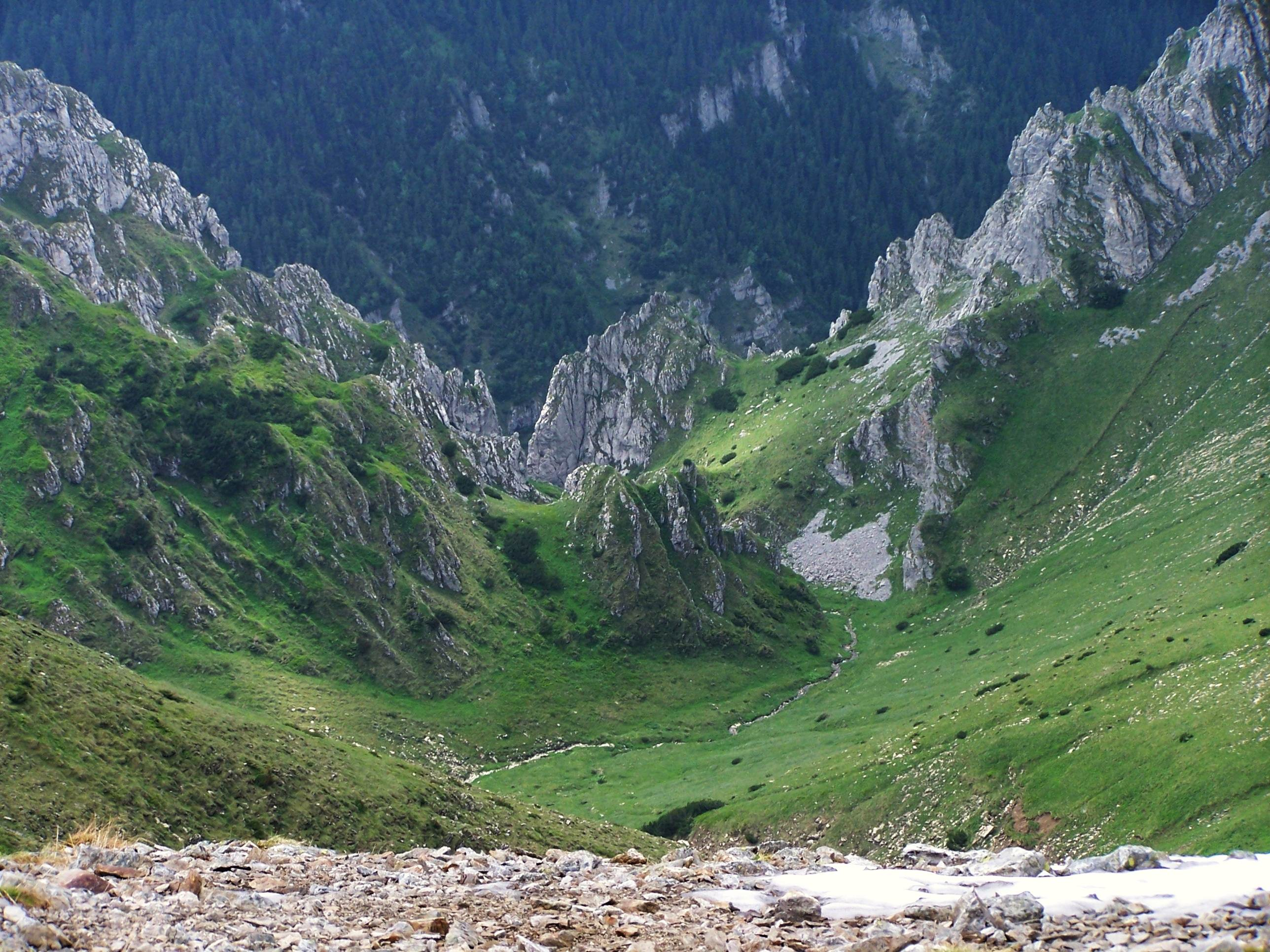 Hala Upłaz (West Tatra Mountains)